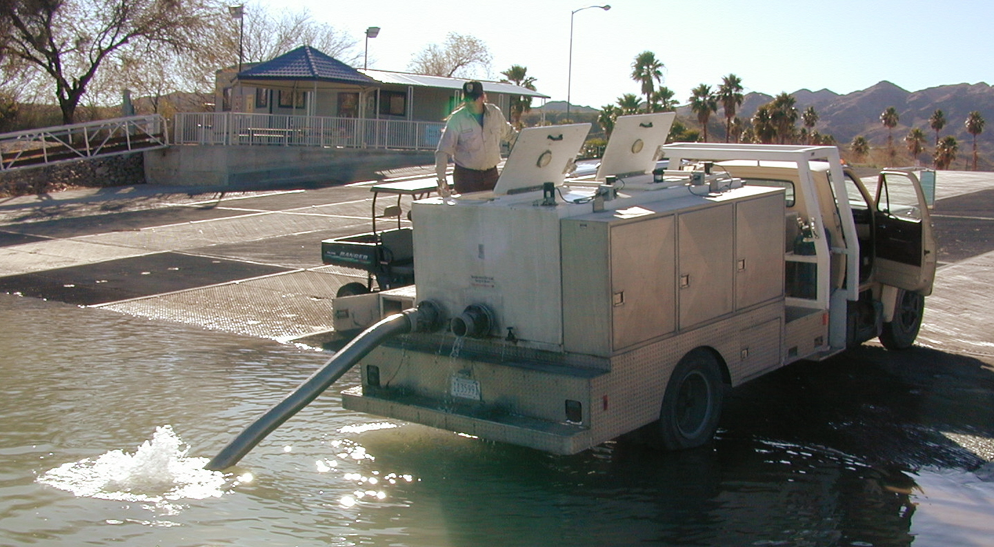 BTC Stocking Site in California off Moabi Park exit about one mile from the border on I40